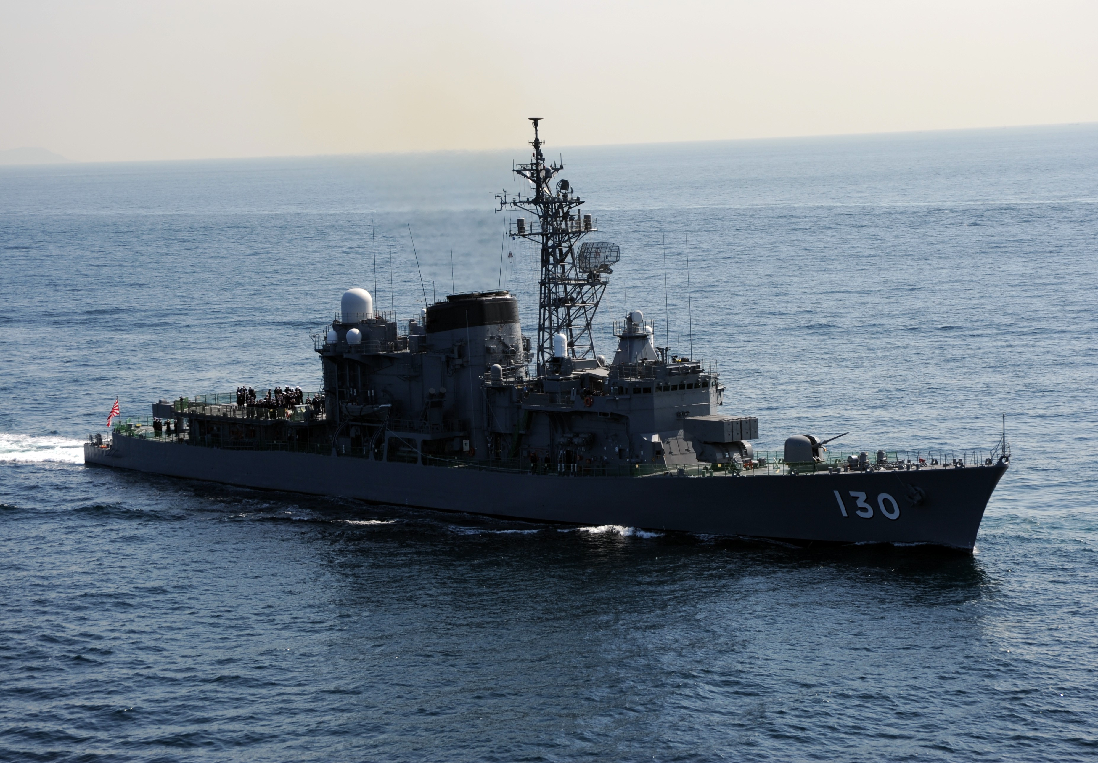 JMSDF Destroyer JS "Matsuyuki"DD-130